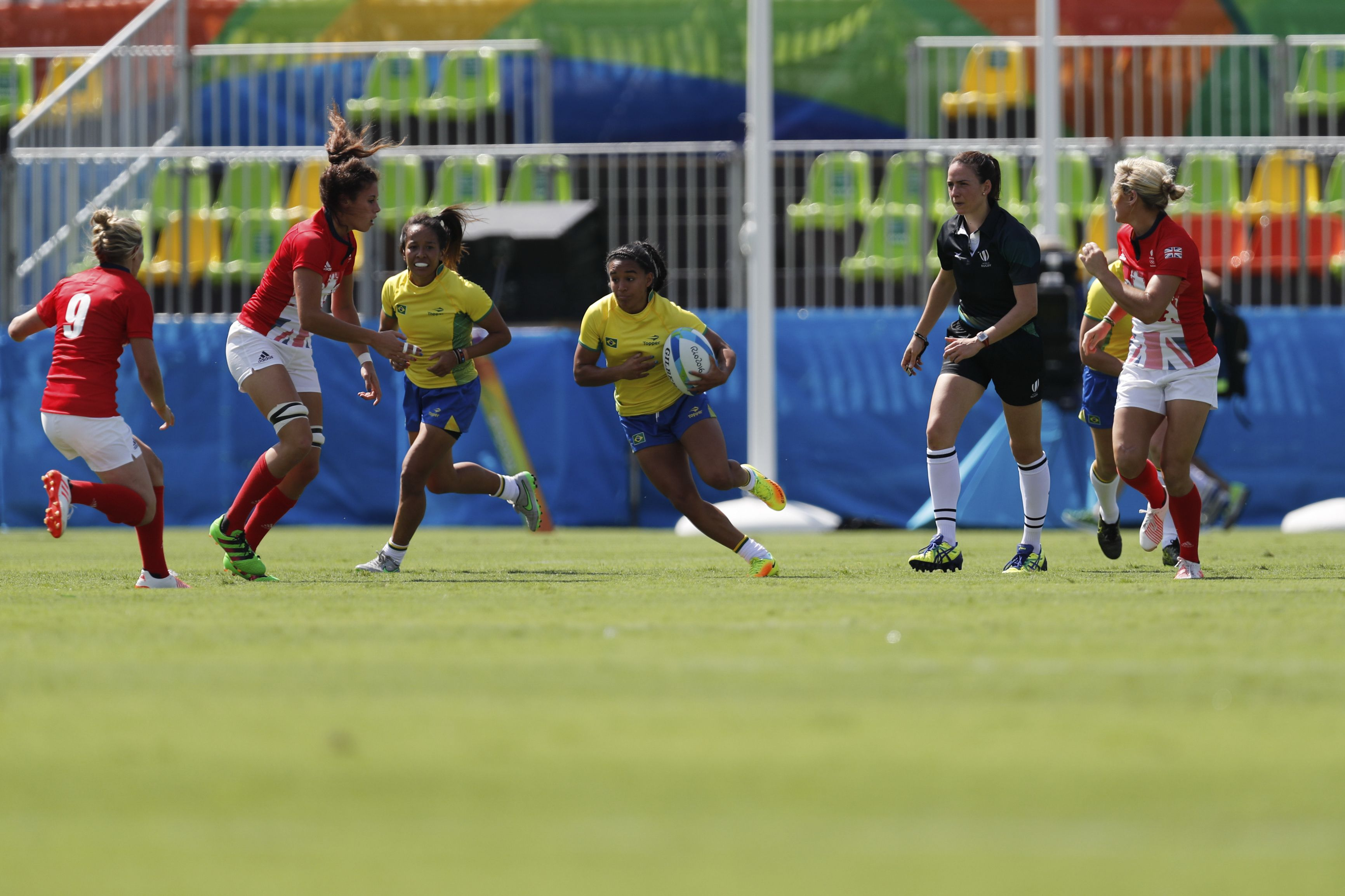 Brazil at 2016 Olympics here v. Great Britain and refereed by Alhambra Nievas from Spain